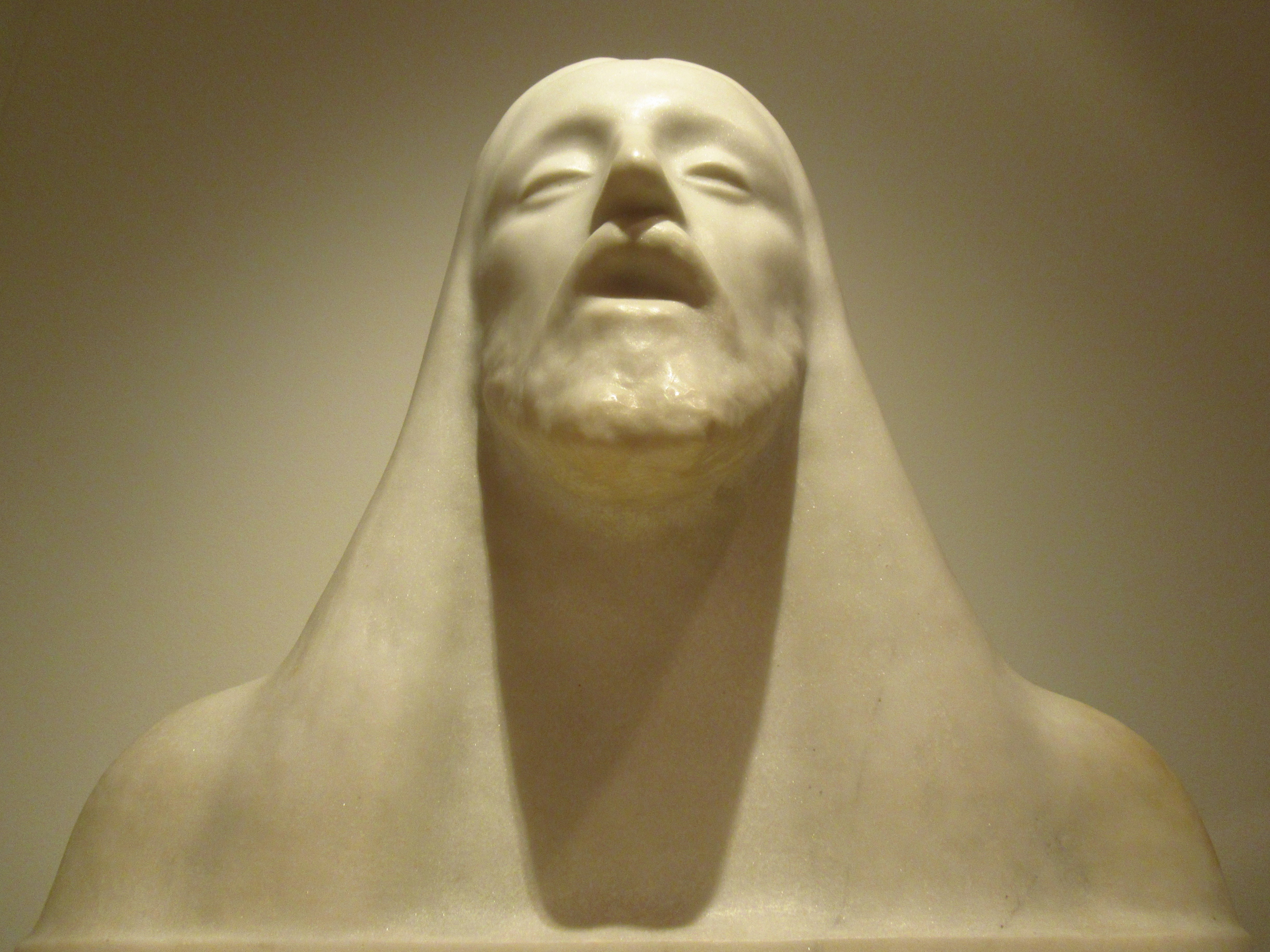 Bogotá